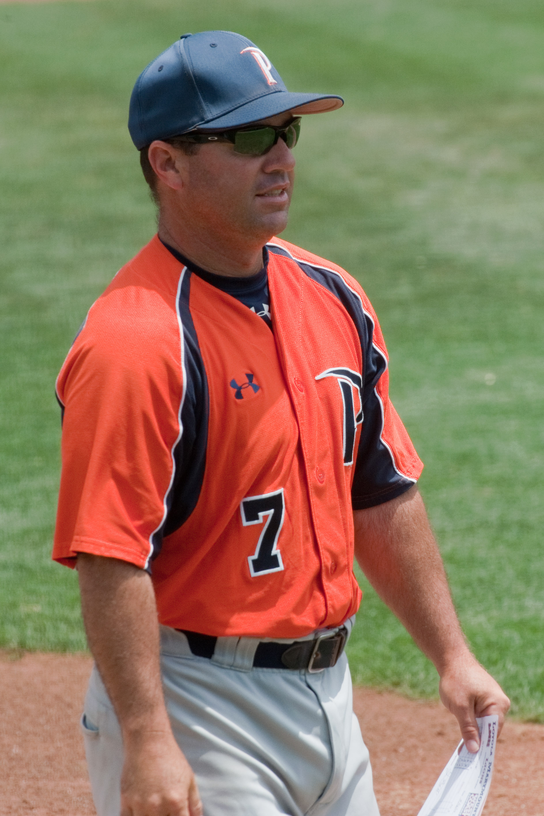 Steve Rodriguez as manager of the Pepperdine Waves baseball team during a May 2010 game against the Loyola Marymount Lions.